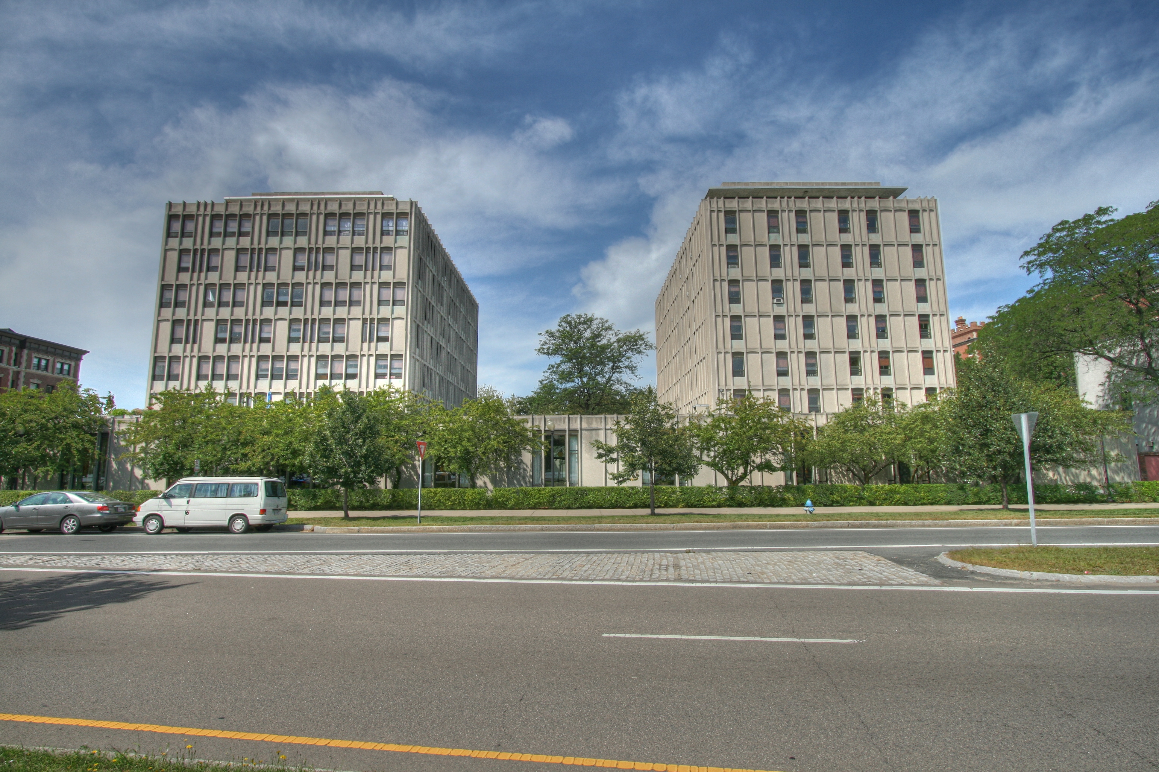 MIT's McCormick Hall from Memorial Drive